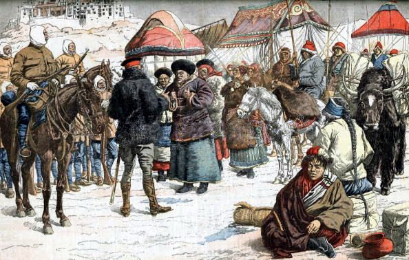 Tibet conquest : meeting between english officers with tibetans, newspaper "Petit journal" february 14, 1904